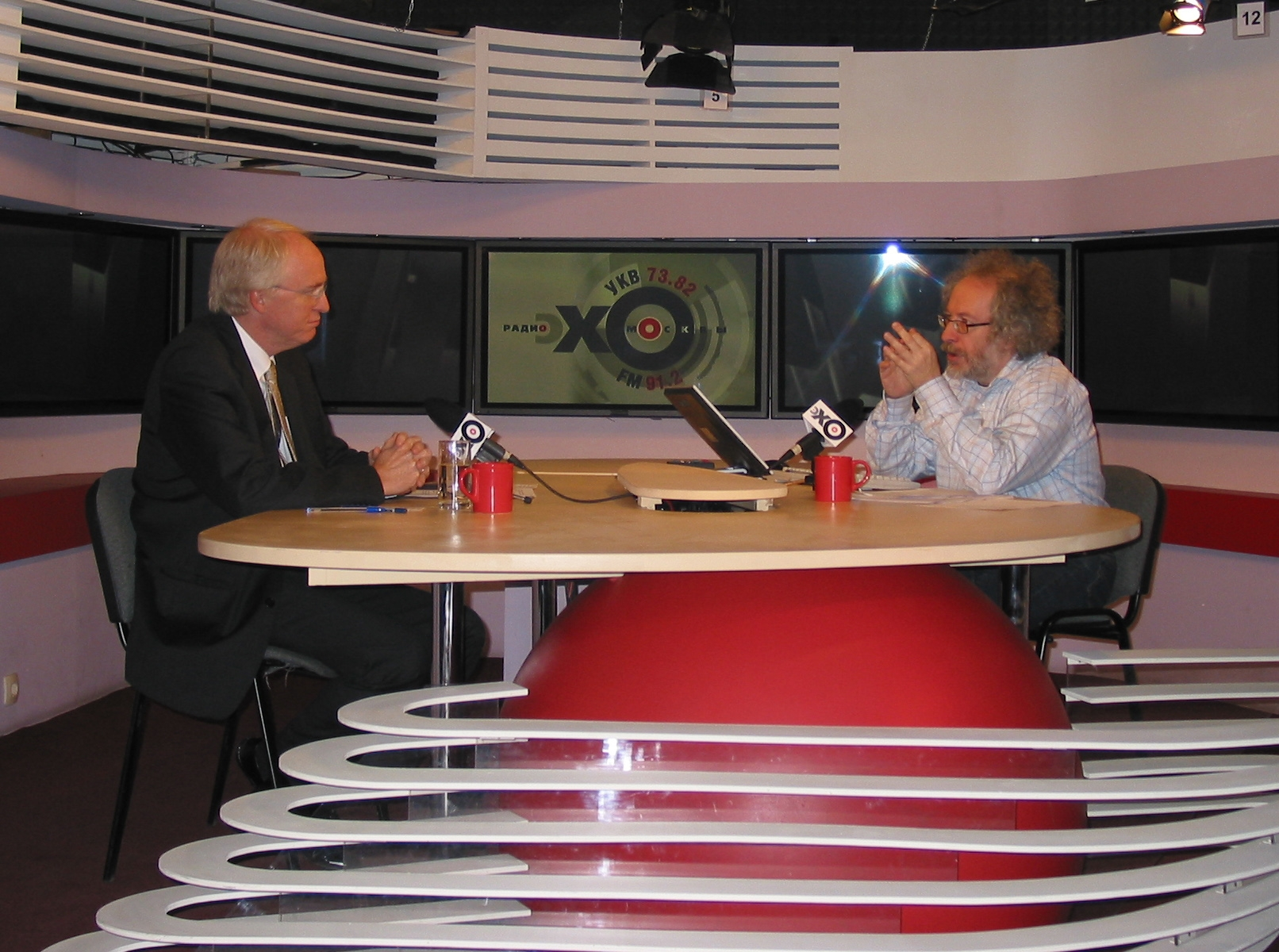 Ambassador to Russia John Beyrle answers questions on Russian radion station Ekho Moskviy, September 11, 2008.